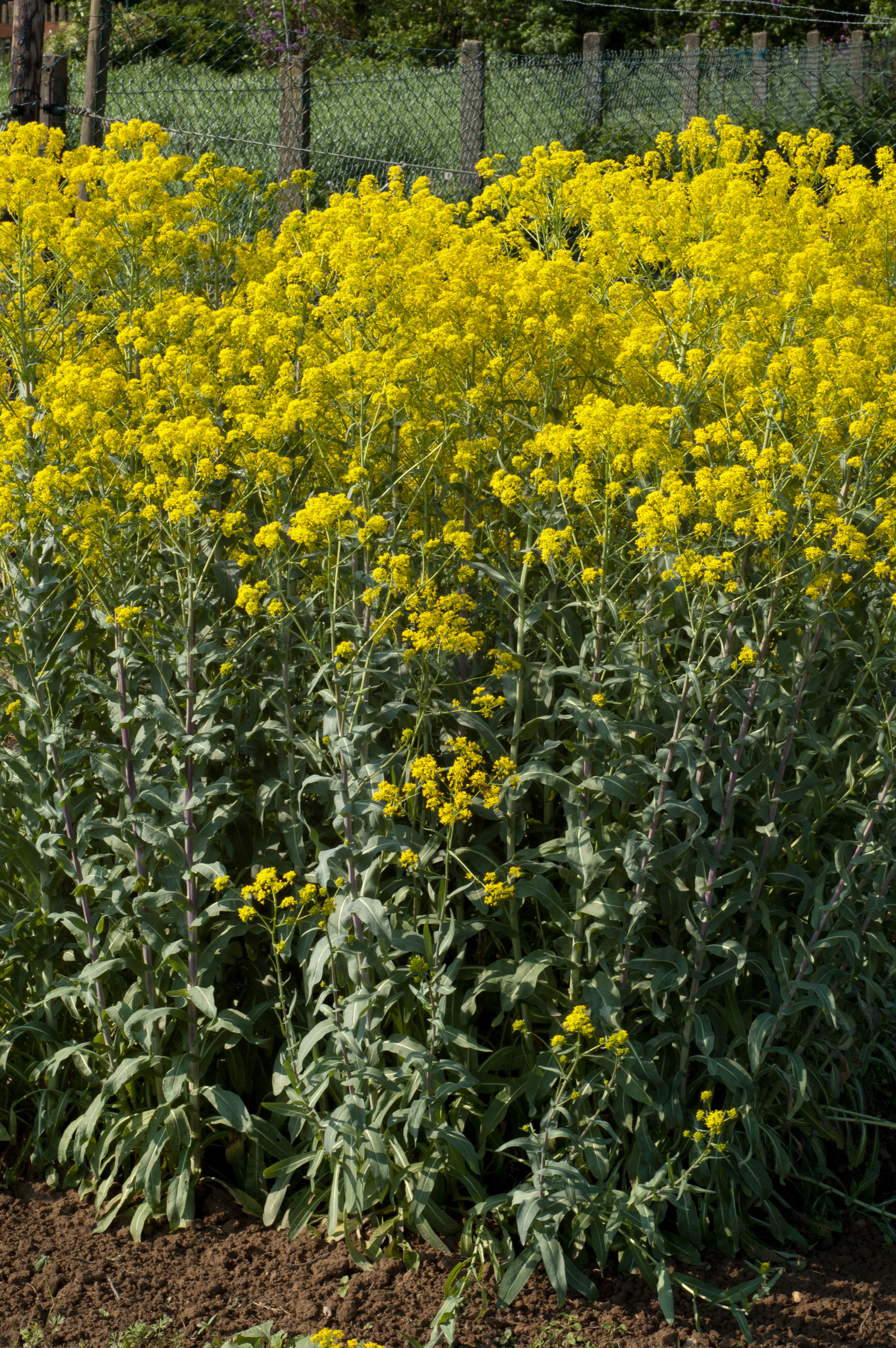 Isatis tinctoria, Brassicaceae, Woad, habitus